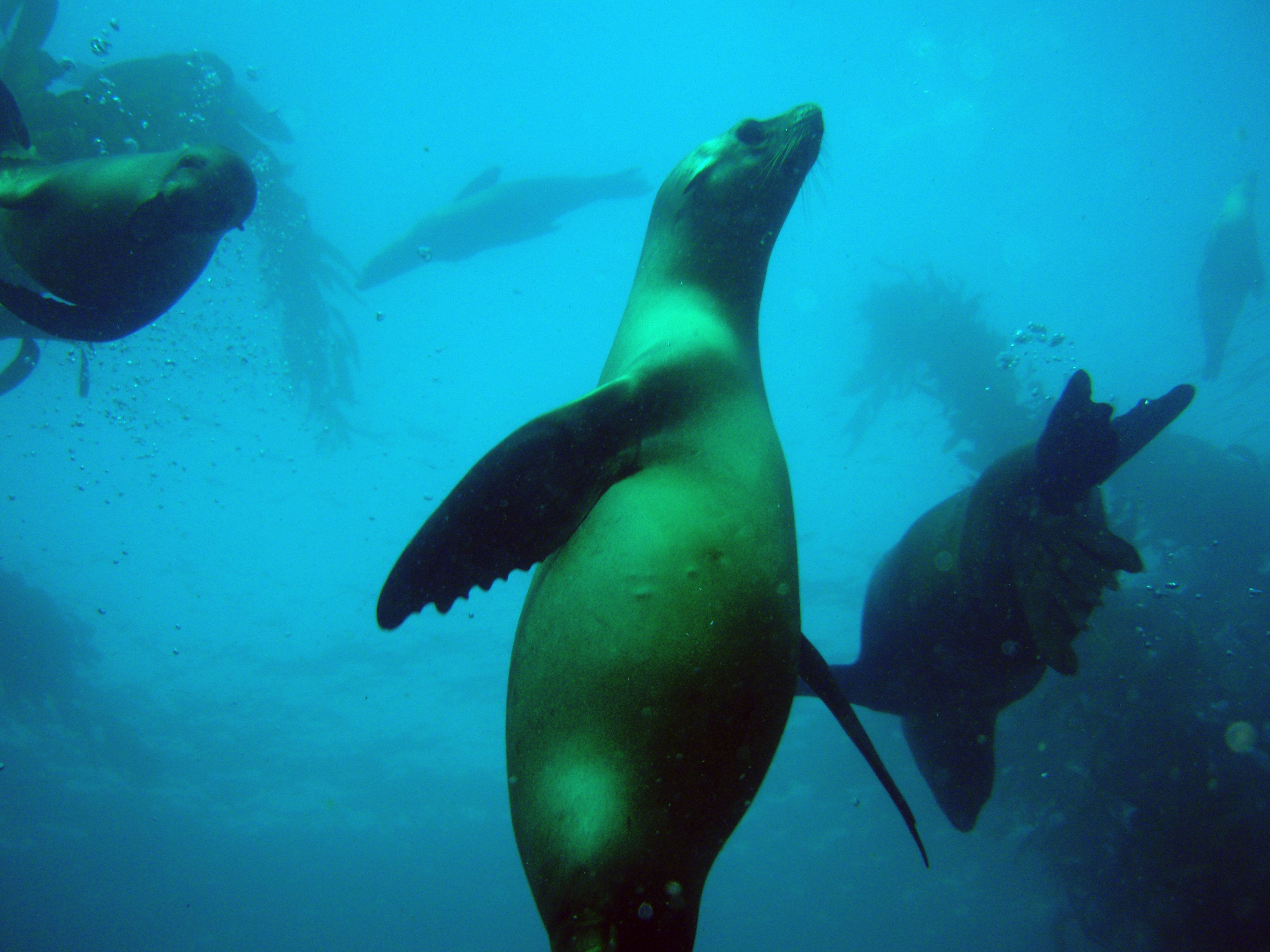 Playful California sea lions in the kelp forest off San Miguel Island. California, Channel Islands NMS.